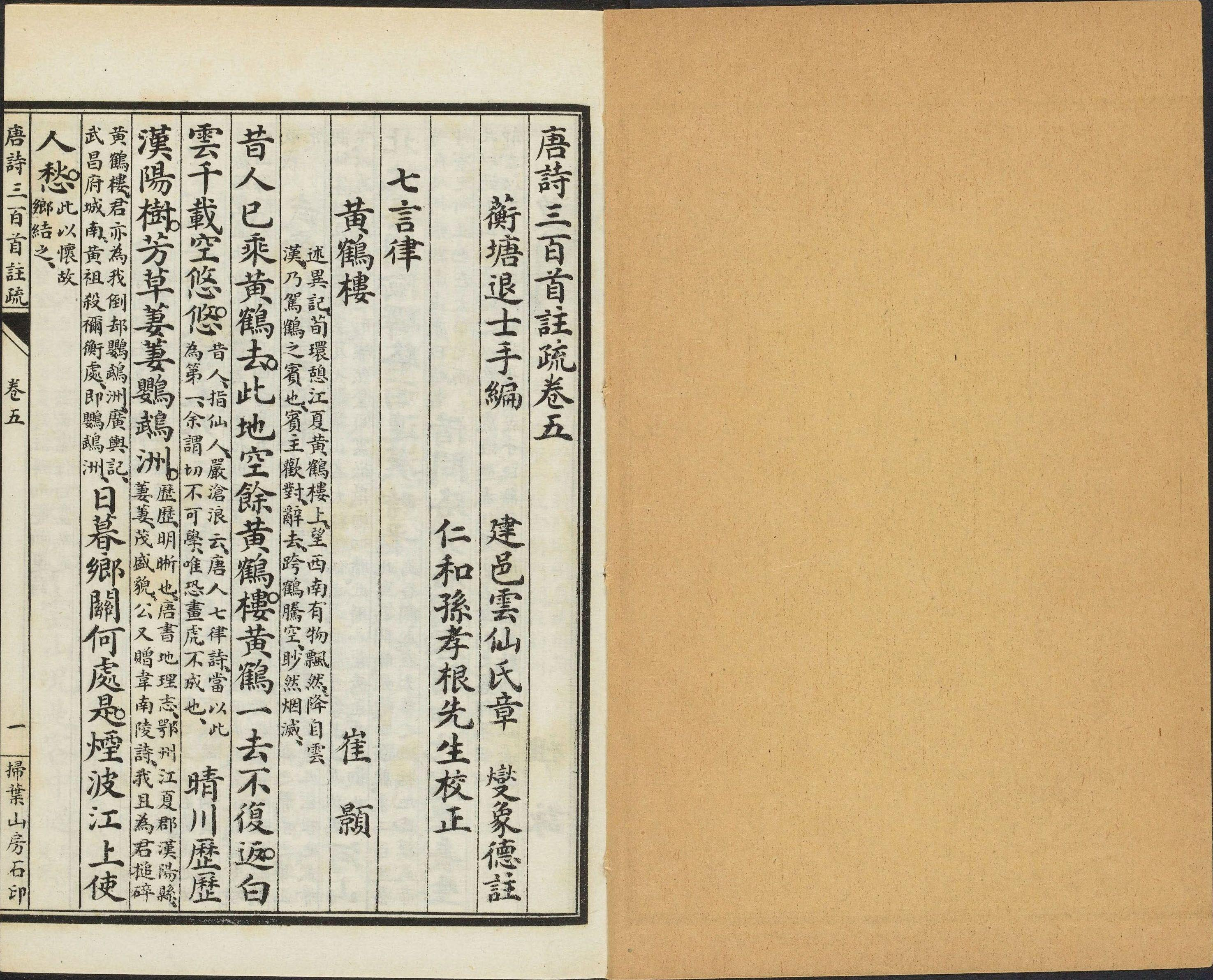 Three Hundred Tang Poems